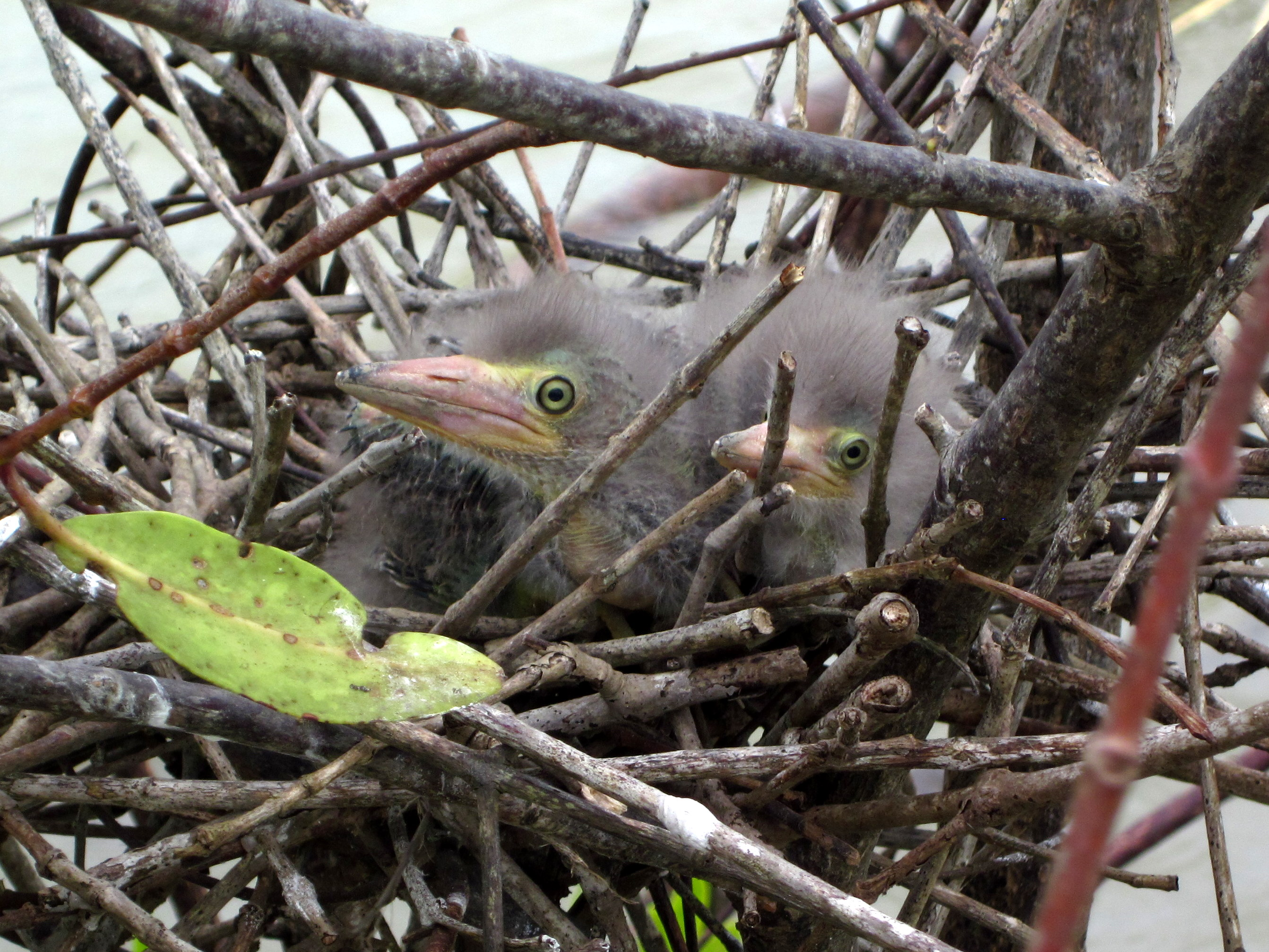 Nest of Green Heron, Butorides virescens, with two baby herons. On a mangrove tree near Isla Damas, Costa Rica.